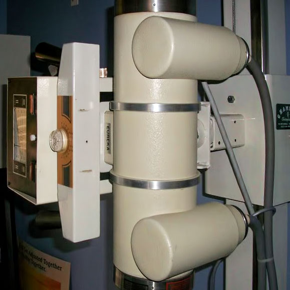 X-ray machine at a chiropractic office in New Jersey.